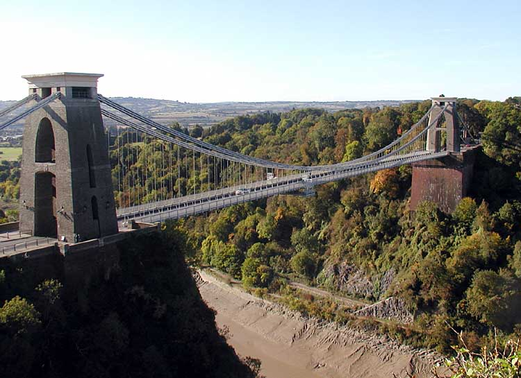 The Clifton Suspension Bridge, Bristol, England. The bridge is 240 feet above the River Avon (at high tide).